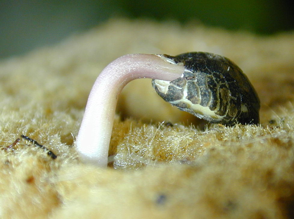 Ipomea seed growng